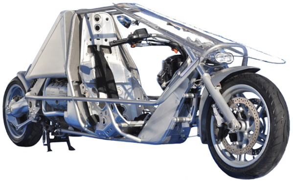 The Exodus, a feet forwards motorcycle built by Suprine Machinery, Inc.